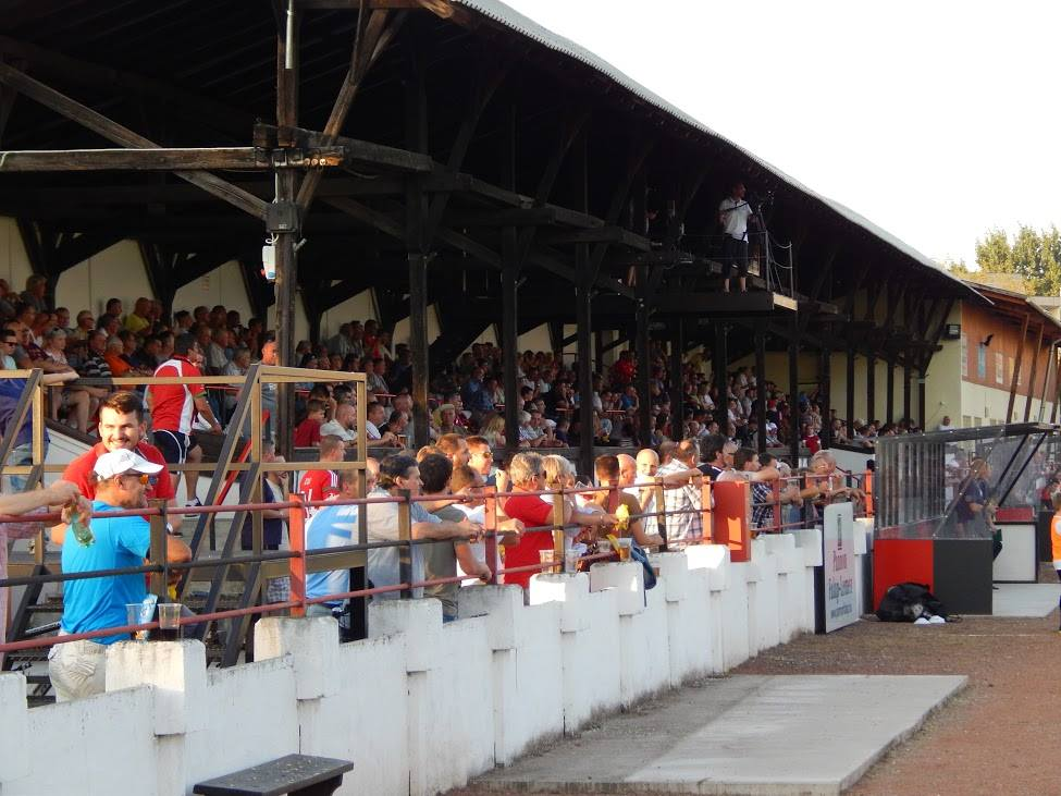 Dorog vs Nyiregyhaza game in the 7th round of division 2016